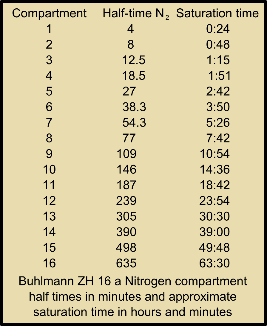 Table of nitrogen compartment half times for Buhlmann ZH 16 a decompression algorithm